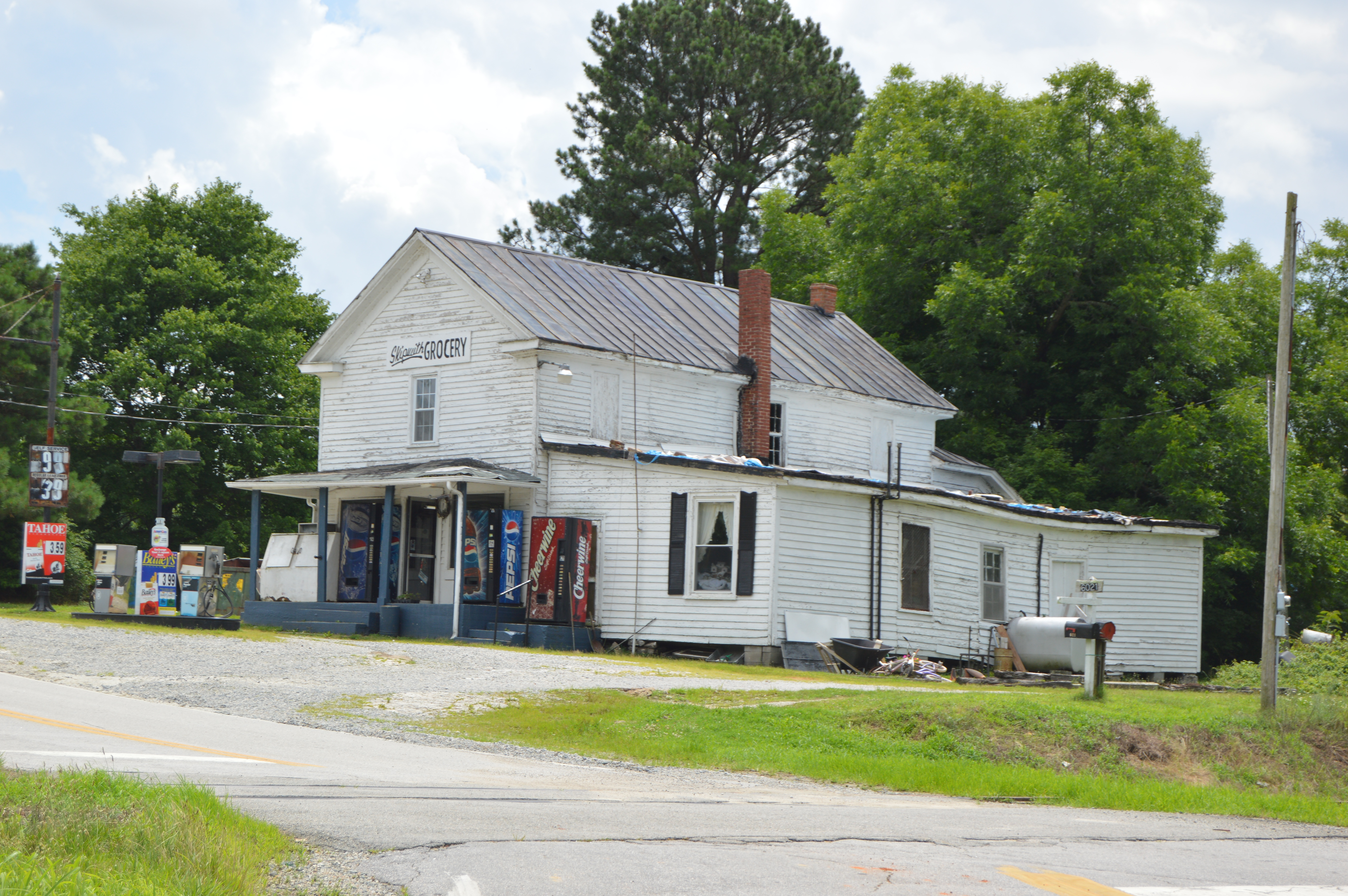 Front and western side of the Skipwith Grocery, located at 6021 Skipwith Road across from the post office at Skipwith in Mecklenburg County, Virginia, United States.